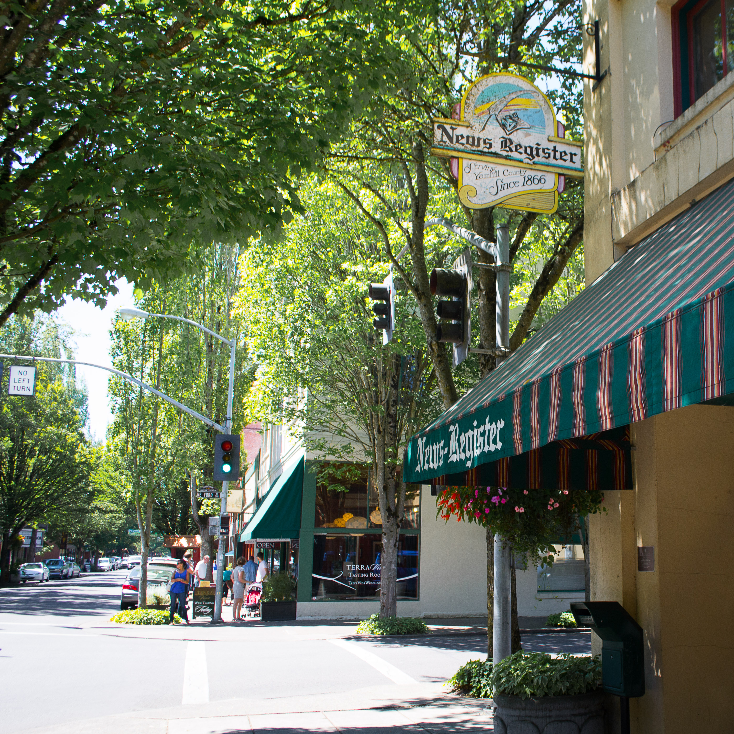 The News Register street entrance in McMinnville, Oregon